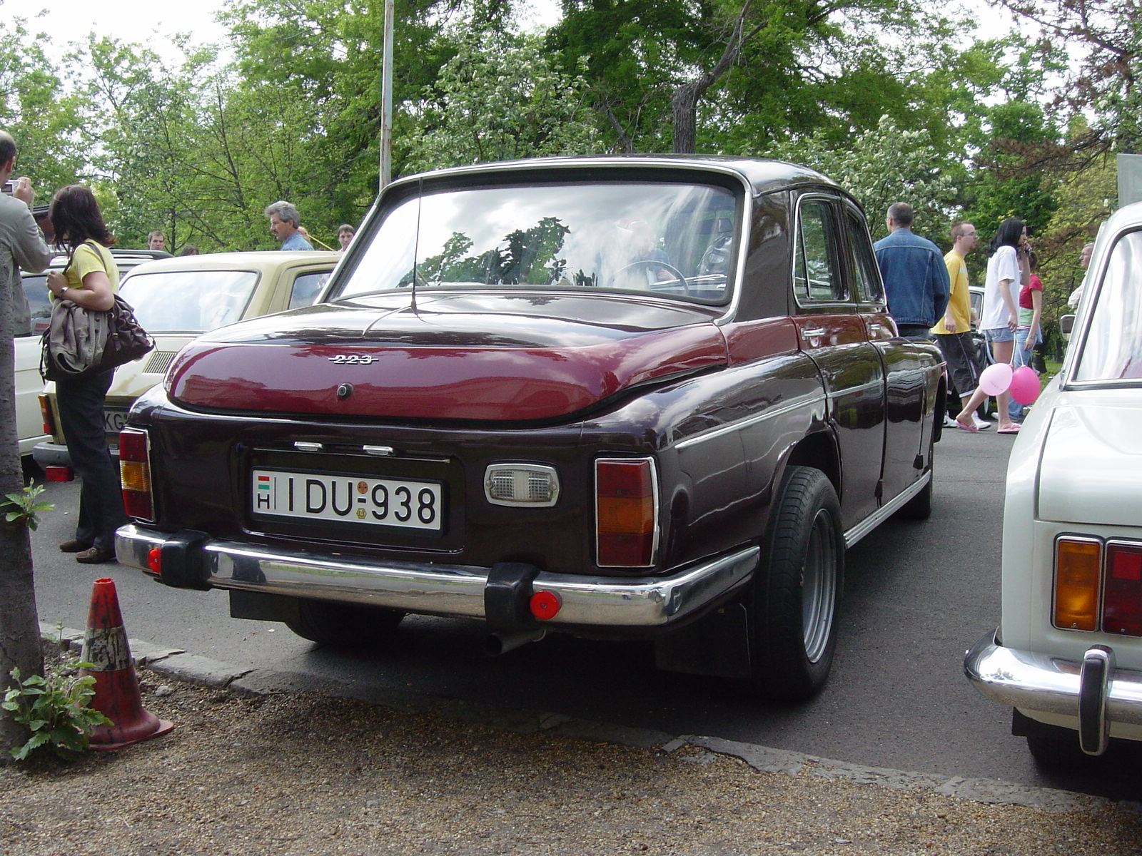 Tuned FSO Warszawa 223 at the Szocialista Jáműipar Gyöngyszemei 2008.